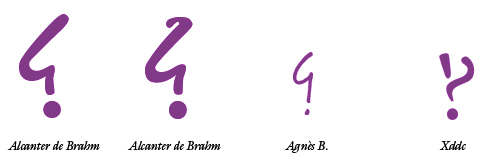 File is taken from fr wikipedia. Details indicate that all rights had been forfeited and thence released into the public domain. Original text from the fr file details: Fichier présenté par Xddc. Deux signes d'Ironie d'origine donc libres de droit, celui d'Agnès B., le mien (sur lequel je cède mes droits Originally jpg - converted to small-size png. TheArmadillo 01:54, 5 April 2006 (UTC)